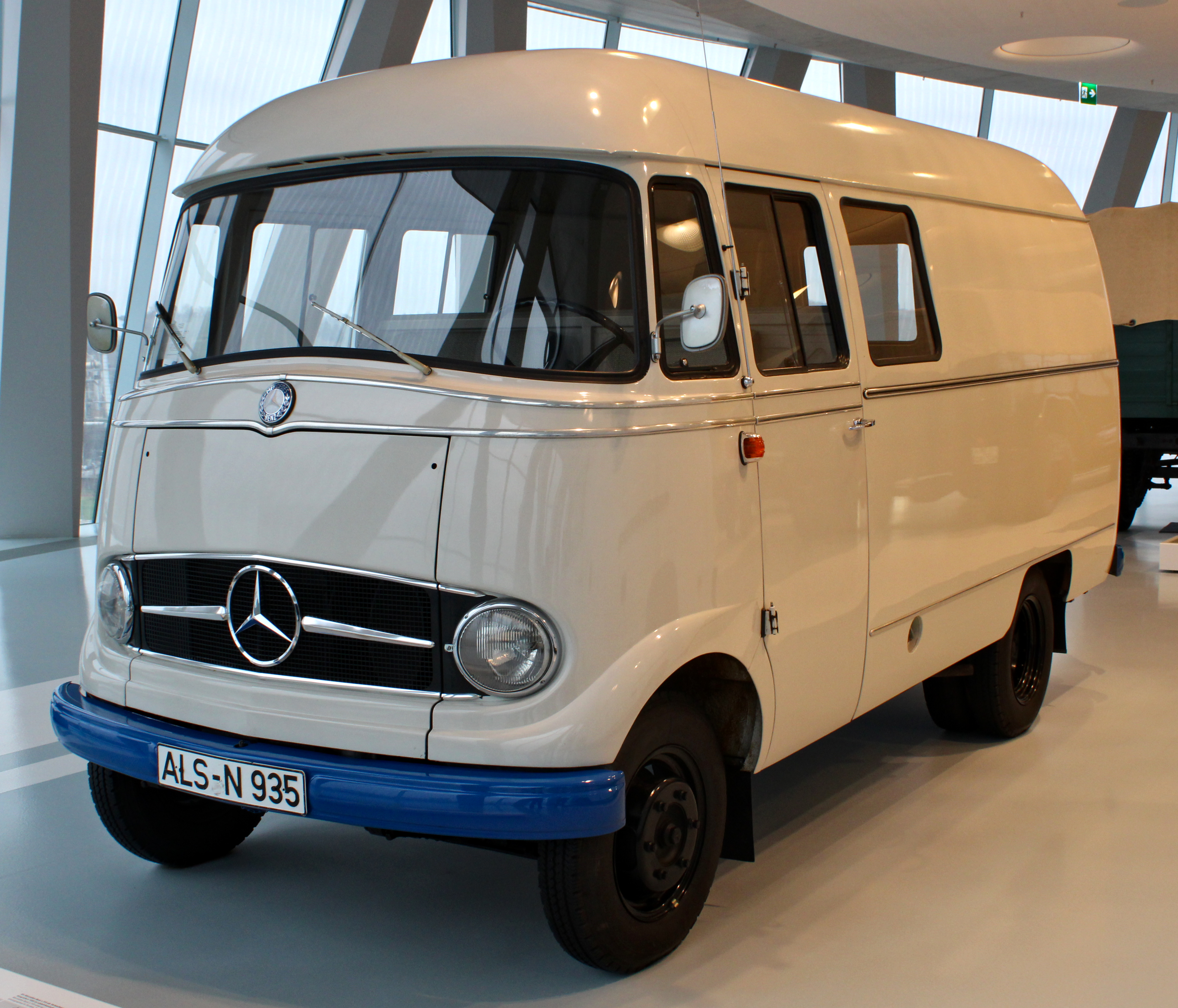 Mercedes-Benz L 406 Kastenwagen in the Mercedes-Benz Museum in December 2018